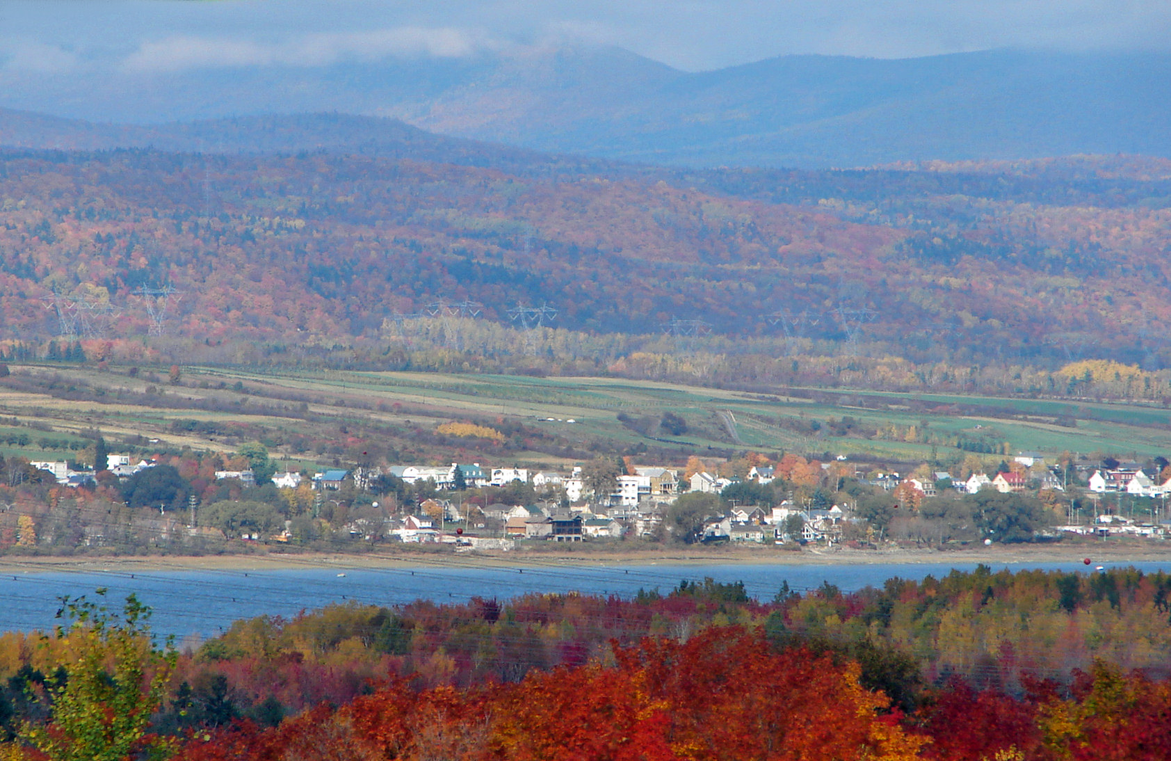 L'Ange-Gardien as seen from Île d'Orléans, Quebec, Canada